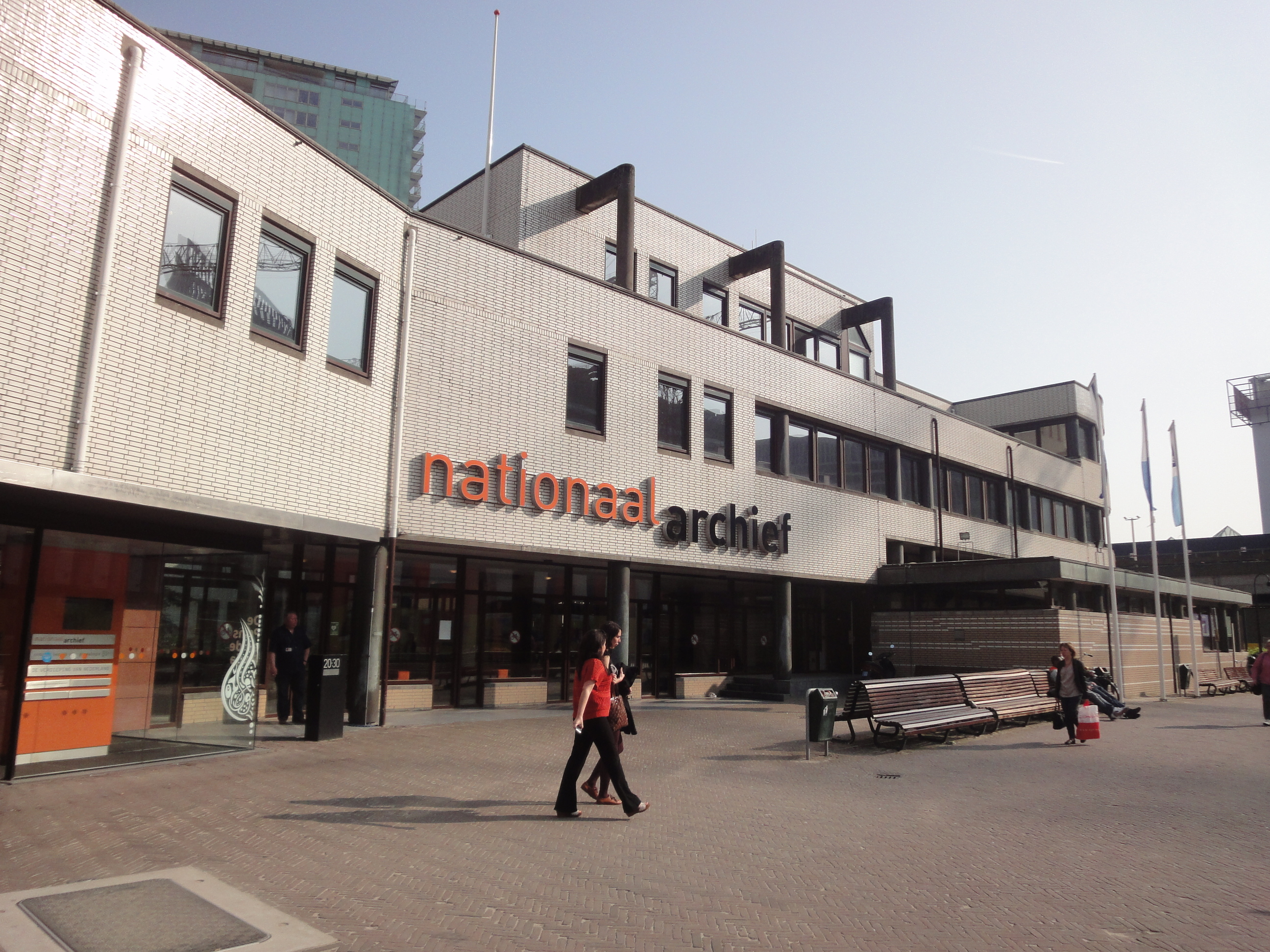 Het Nationaal Archief